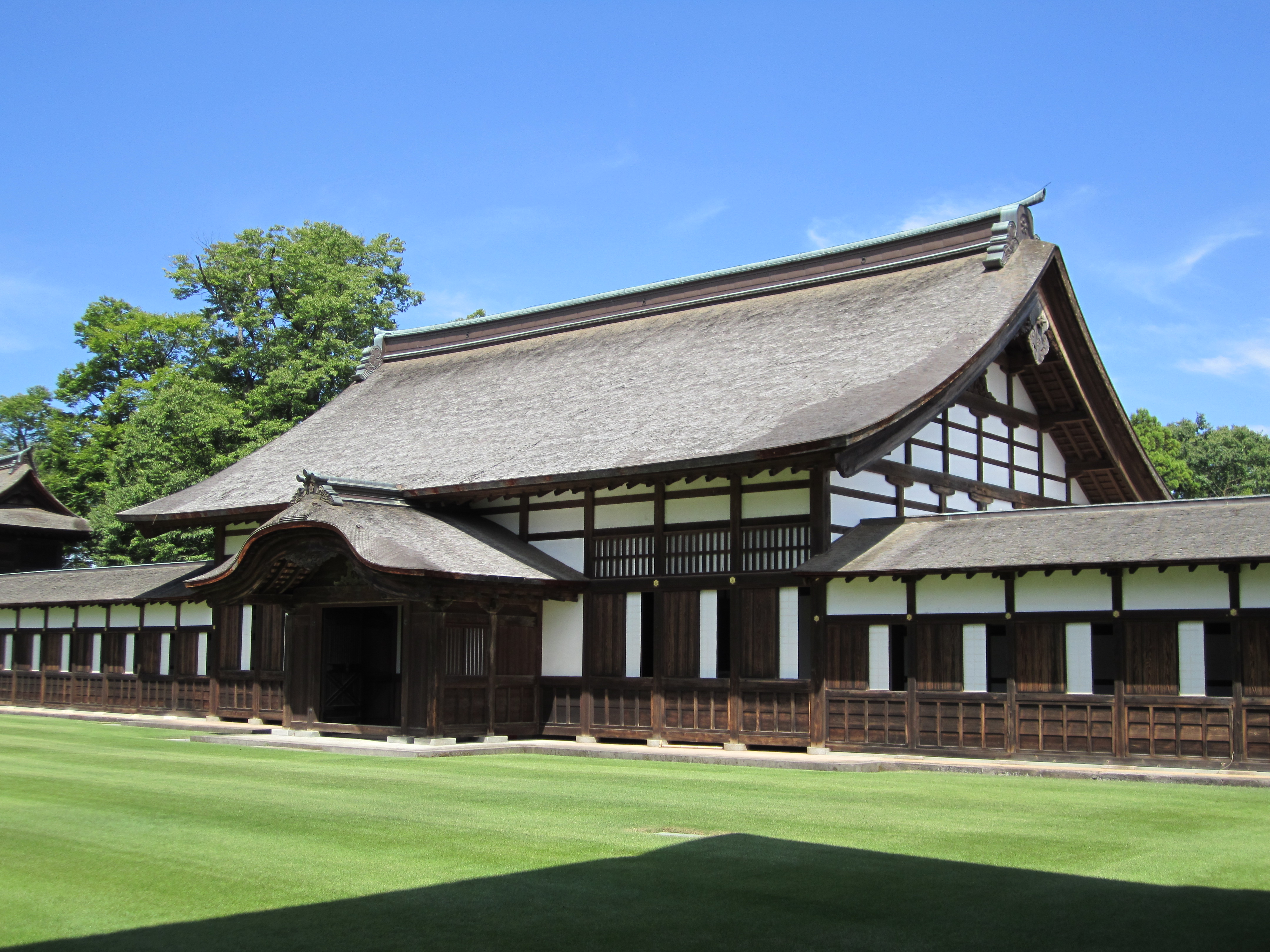 Okuri, Zuiryuji Temple